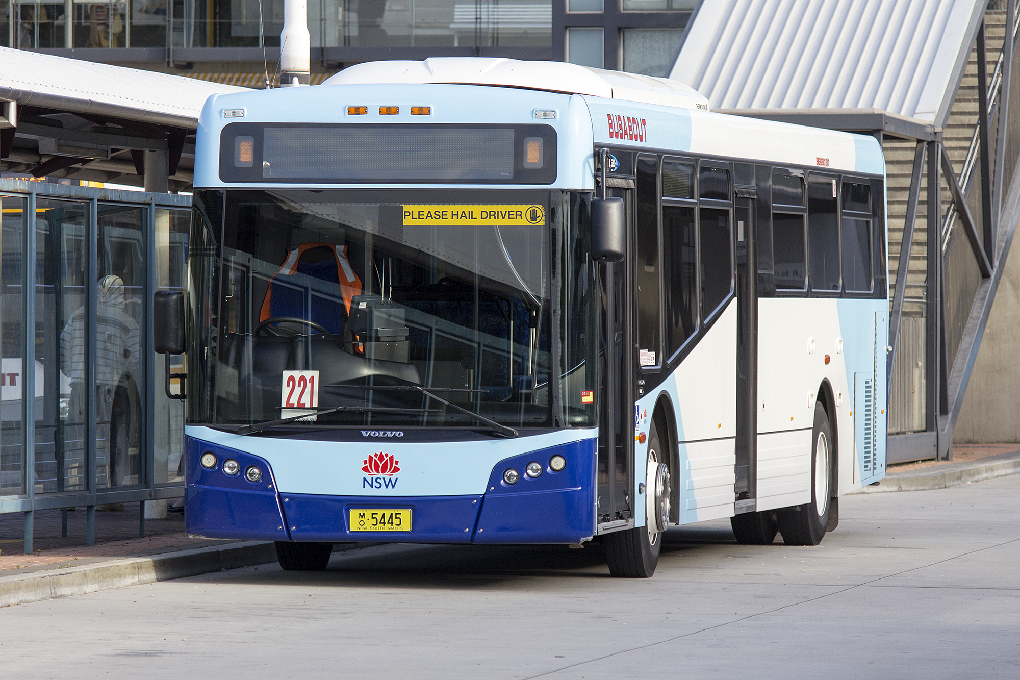 Transport NSW liveried (mo 9394), operated by Busabout, Bustech 'VST' bodied Volvo B7RLE at Liverpool Interchange.